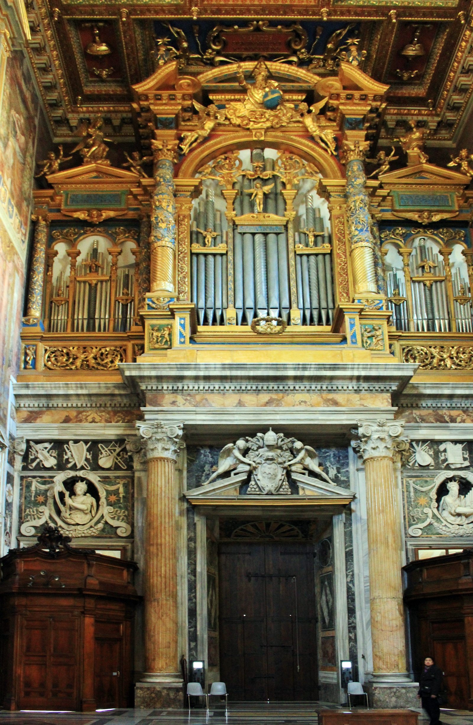 The organs in Basilica of St. John Lateran, Rome, Italy